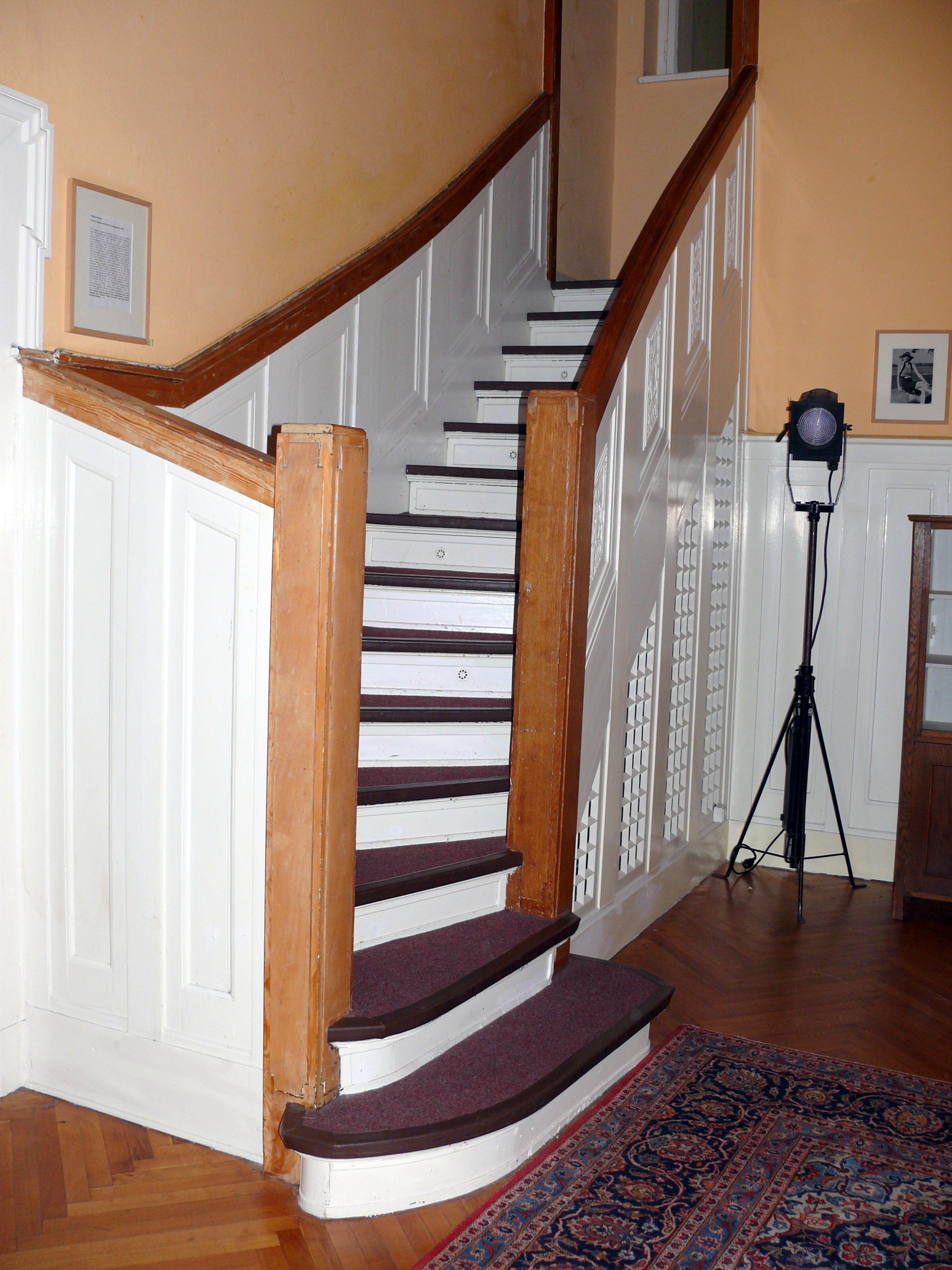 Staircase to photographers Yva studio at Schlüterstraße 45 in Berlin-Charlottenburg